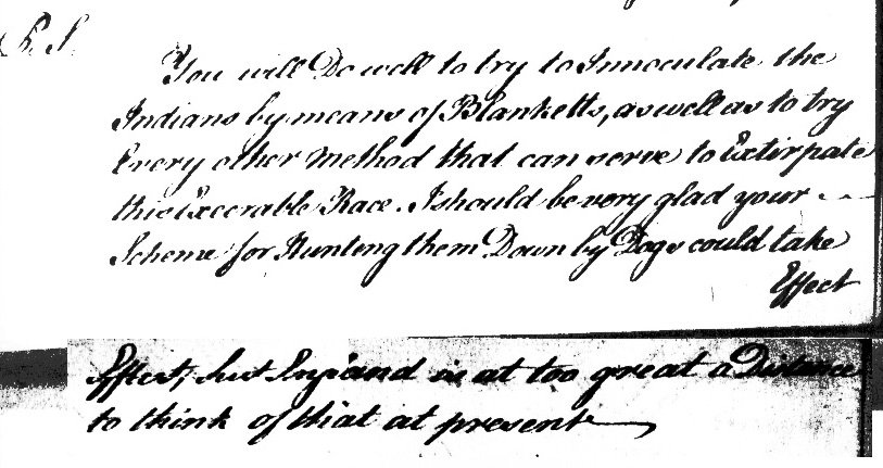 You will Do well to try to Innoculate the Indians by means of Blanketts, as well as to try every other method that can serve to Extirpate this Execrable Race. I should be very glad your Scheme for hunting them Down by Dogs could take Effect Effect, but England is at too great a Distance to think of that at present. Summary NOTE: This is a case of "uploading some picture I found on the Web", based on Wikipedia's information that a photo of a public domain document can't be copyrighted. The photo is copied without permission from [1], and the explanation of its provenance (and invaluable historical context) is at [2]. If necessary, the fair use rationale is that this is the kind of thing you have to see to believe.